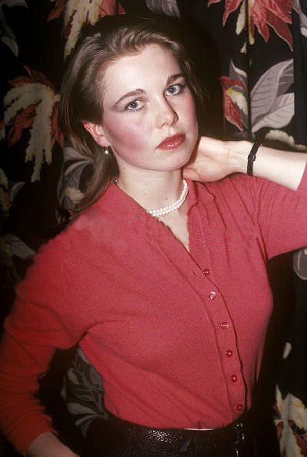 Ms Martha Ladly 1984